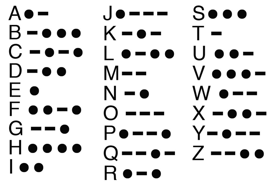 Morse code codification.